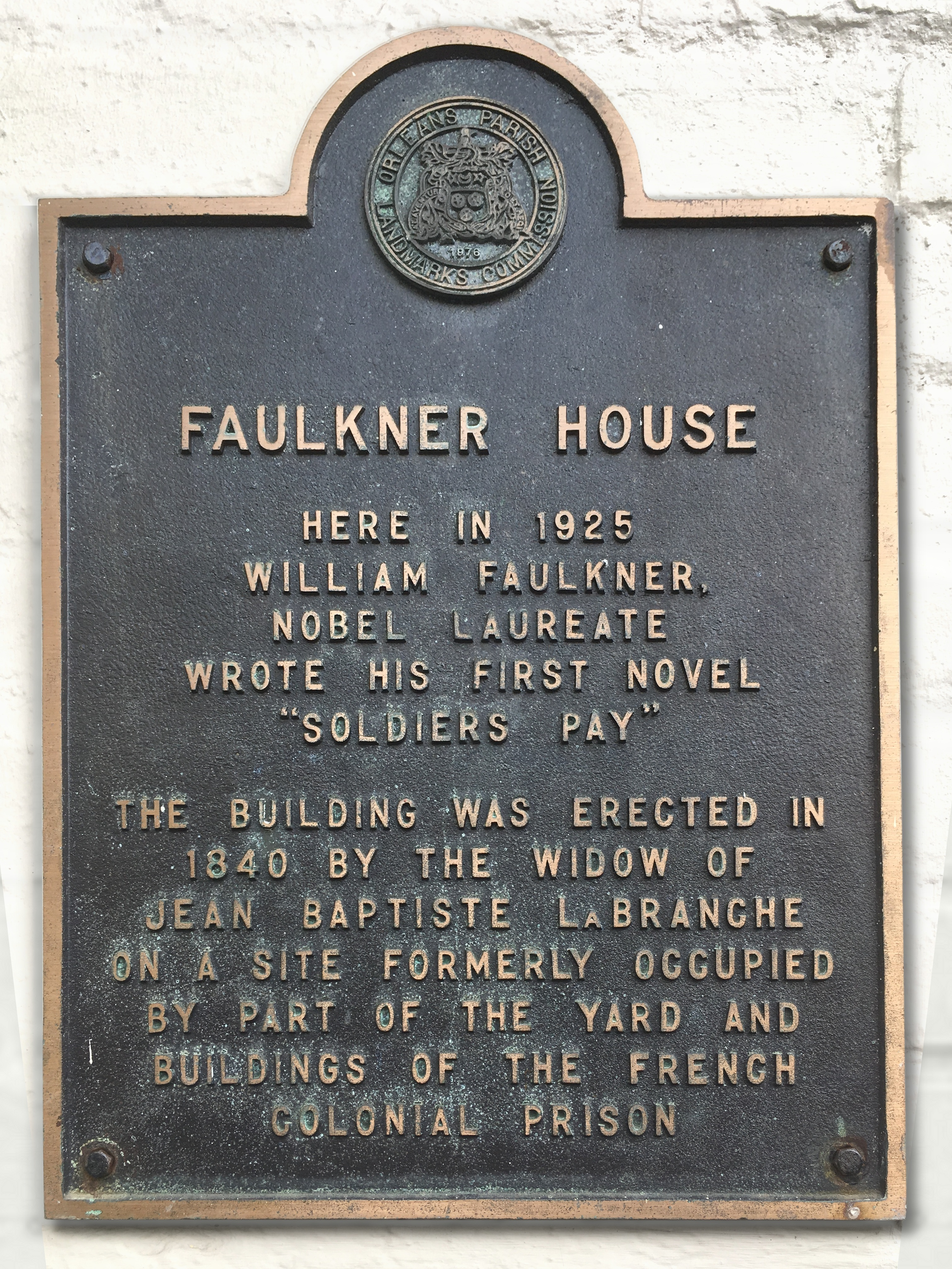 Bronze plaque in Pirate's Alley, New Orleans, Louisiana, commemorating the house where in 1925 American writer William Faulkner wrote his first novel, Soldiers' Pay.